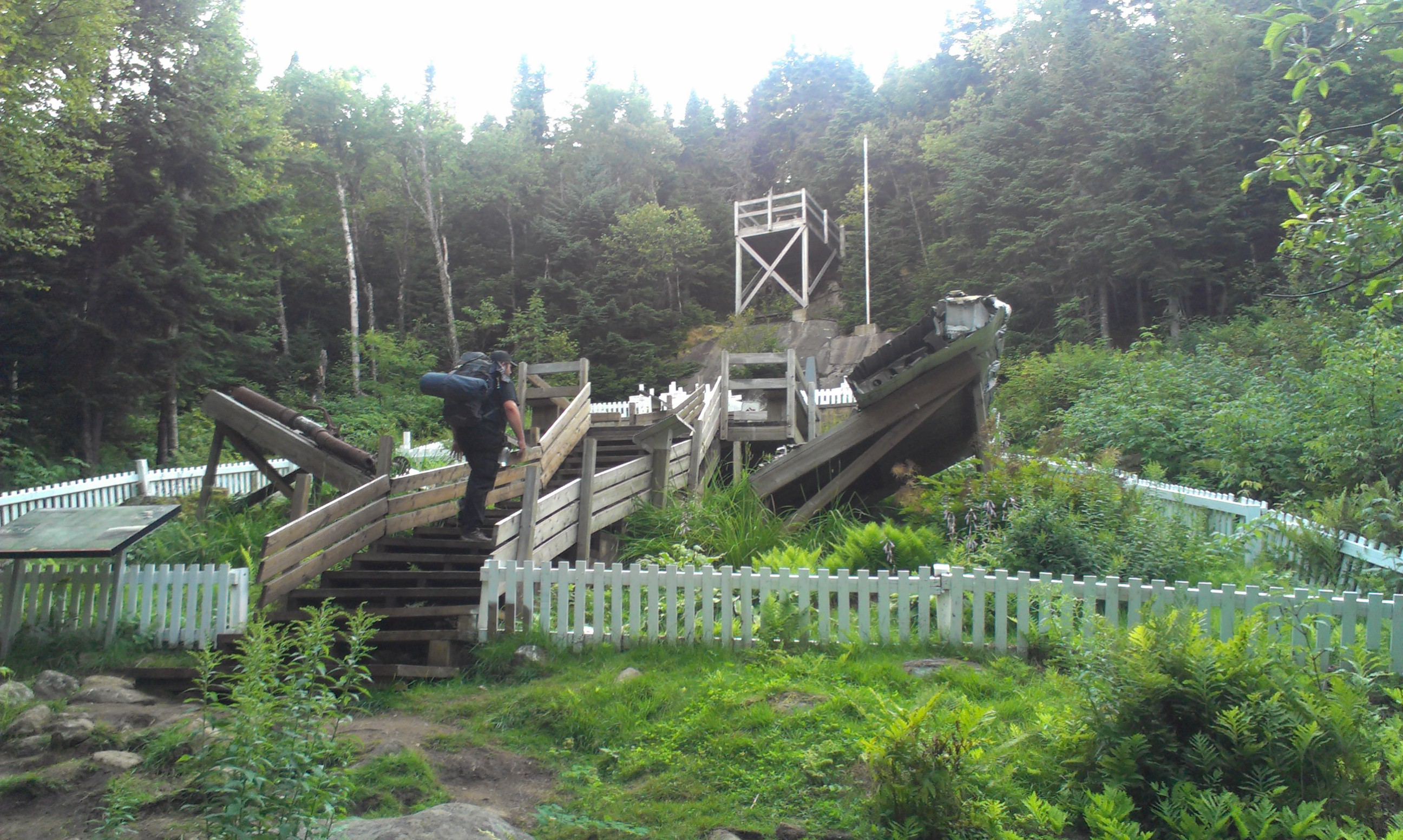 A view of the whole commemorative monument from below at the 1943 Saint-Donat B-24D Liberator crash site.